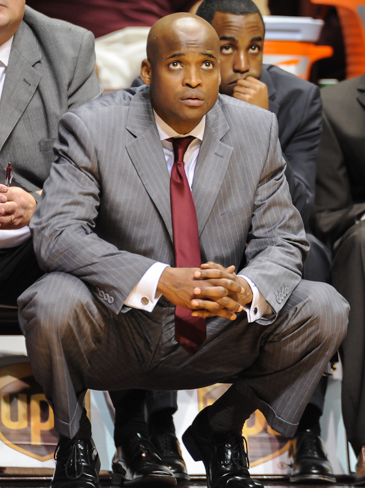 James Johnson looks on from the sideline.